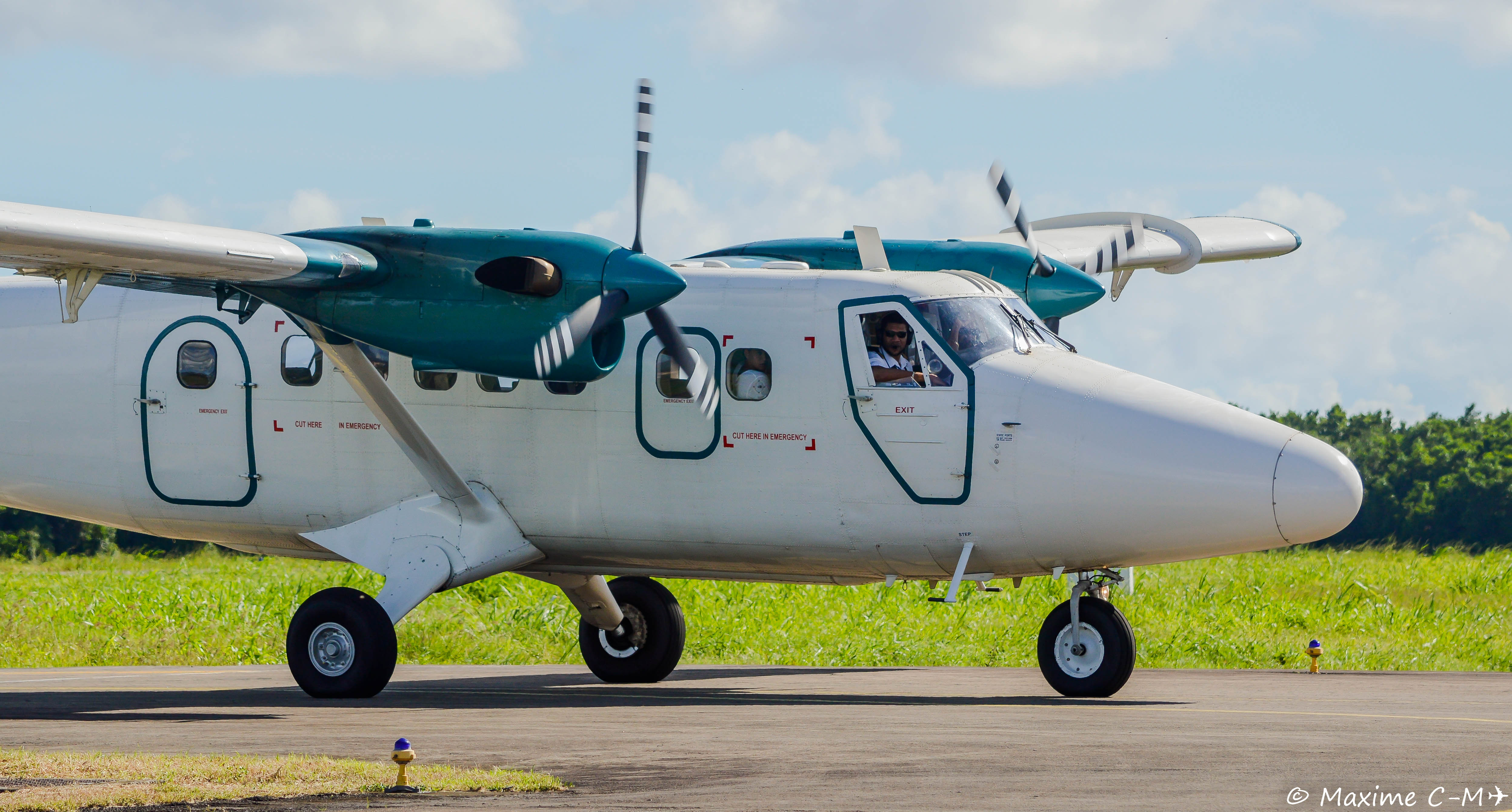 J8-SUN De Havilland Canada DHC-6-300 Grenadine Airways TFFF / FDF